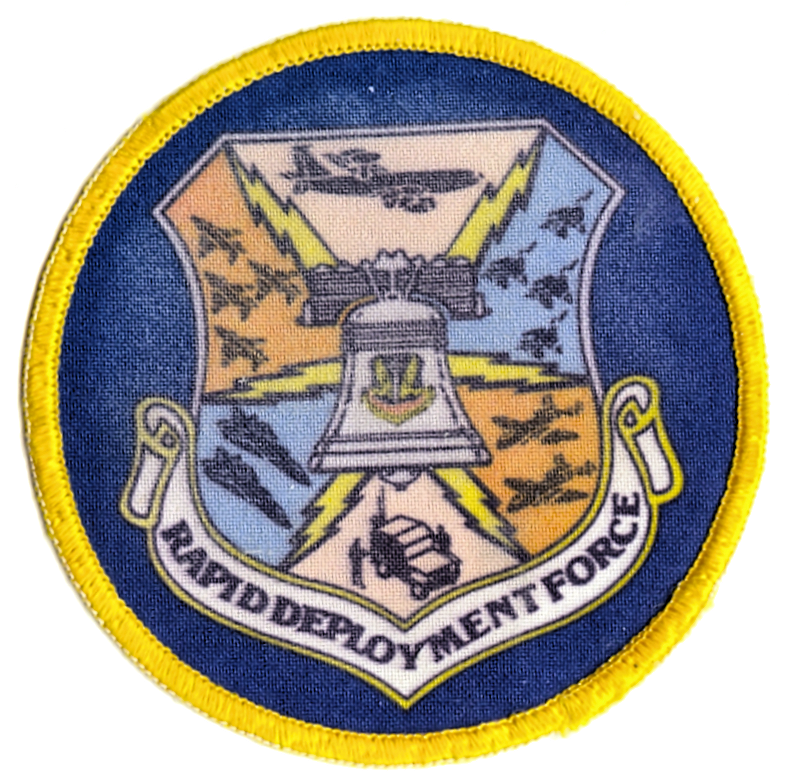 United States Rapid Deployment Forces - USAF emblem